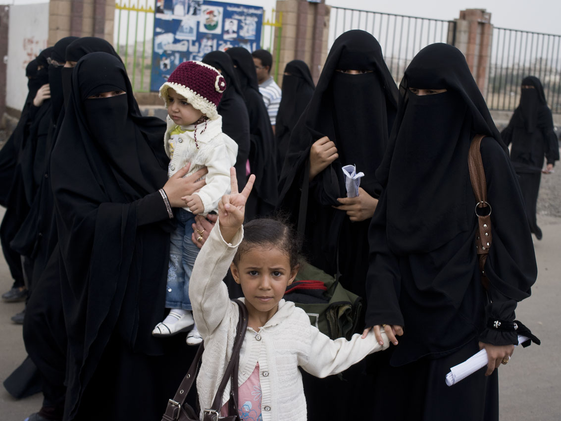 Women and children in Sana'a